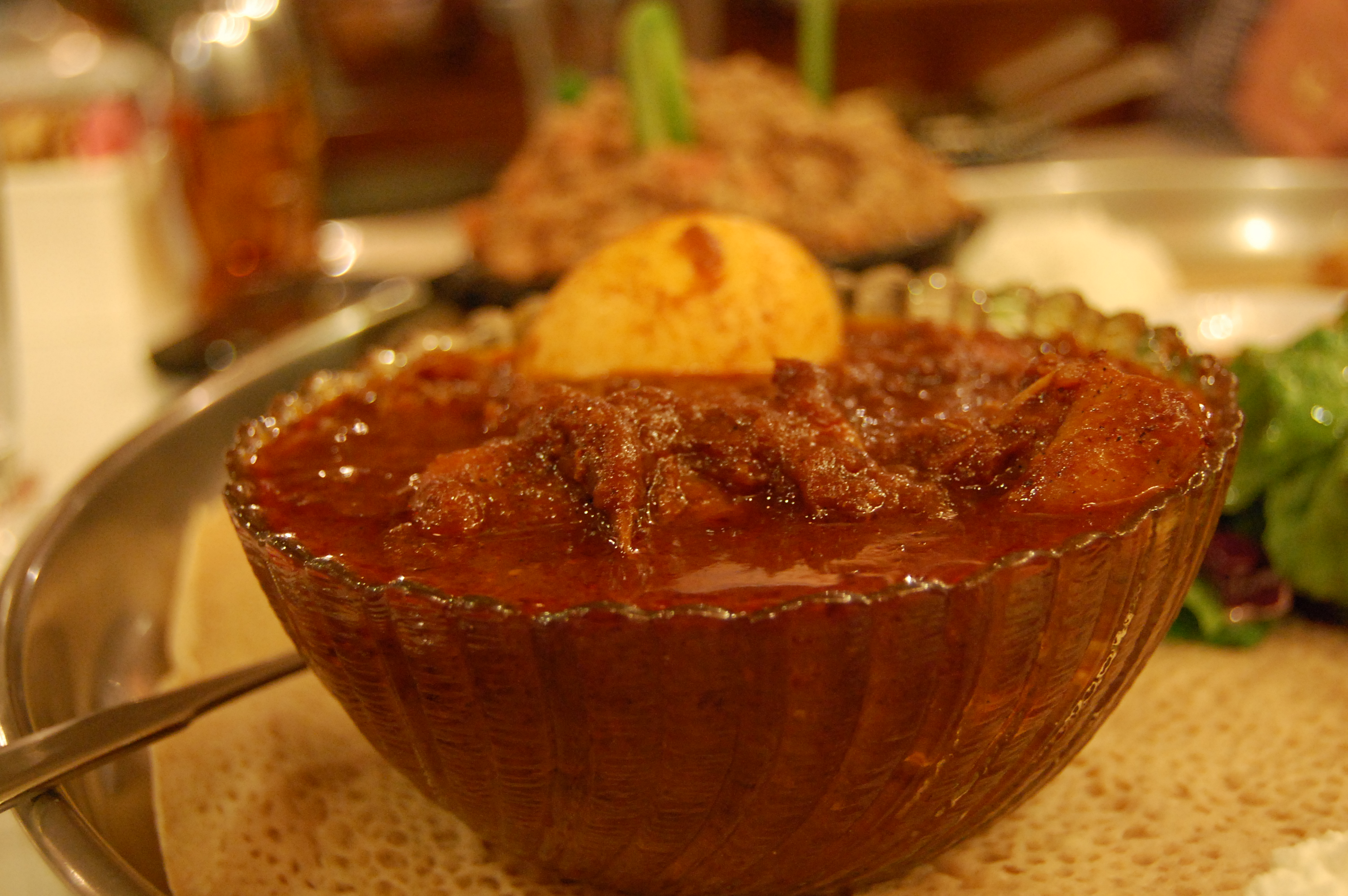 Wat or wet, known as tsebhi in Tigrinya (also wot; Amharic ወጥ weṭ, Tigrinya ጸብሒ ṣebḥī) is an Eritrean and Ethiopian stew which may be prepared with chicken, beef, lamb, a variety of vegetables, and spice mixtures such as berbere and niter kibbeh, a seasoned clarified butter.